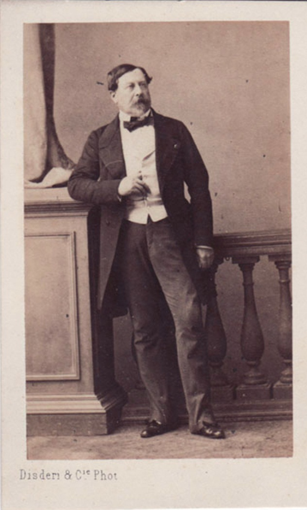 Adolphe Eugène Disderi (1810-1890) - Gustave Olivier Lannes, général de Montebello (+ 1875), from 1862 to 1870 commander of the French troups in the Papal States.